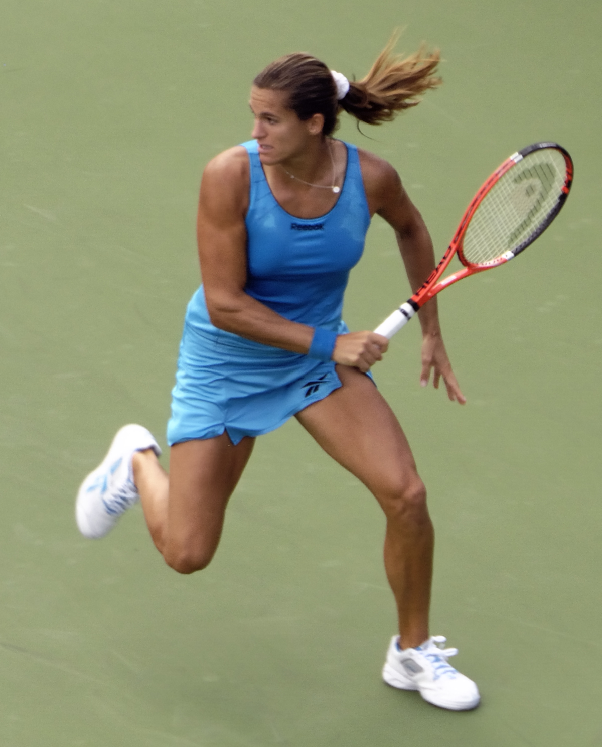 Amélie Mauresmo at the 2009 US Open